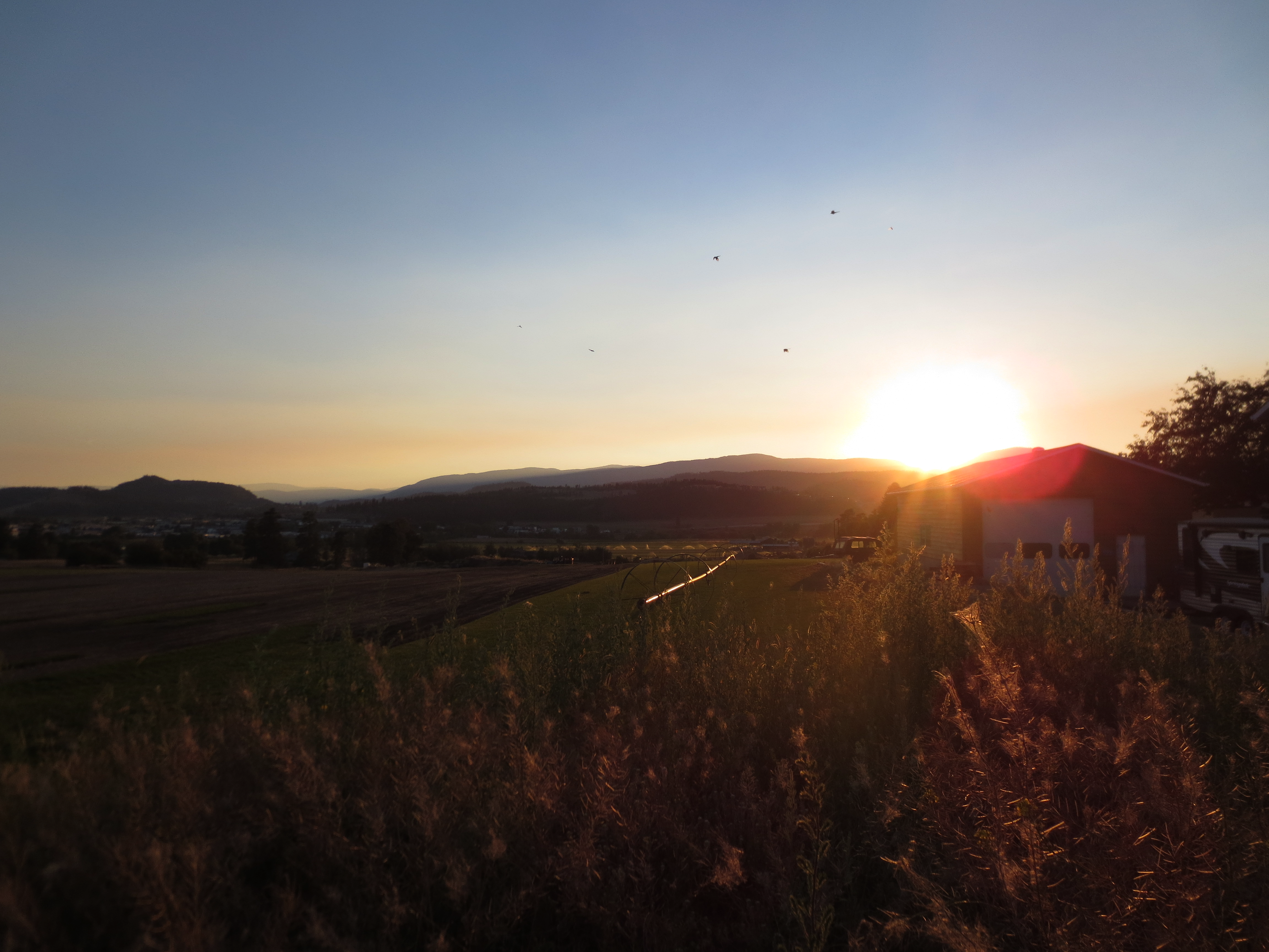 Summer Sunset over Ellison, looking west from the intersection of Old Vernon and Scotty Creek Roads